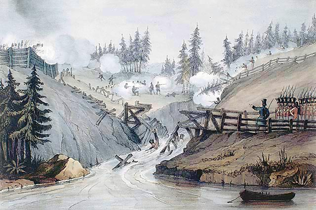 Lithographic views of Military operations in Canada under Sir John Colborne During the Late Insurrection, Londres, A. Flint, 1840.